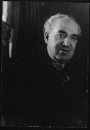 Channing Pollock (1880–1946), American playwrightPortrait of Channing Pollock (1934 April 27)